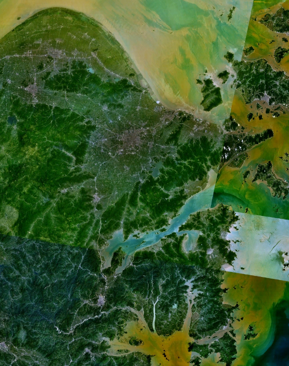 Satellite view of Ningbo, Zhejiang, China from NASA WorldWind software.